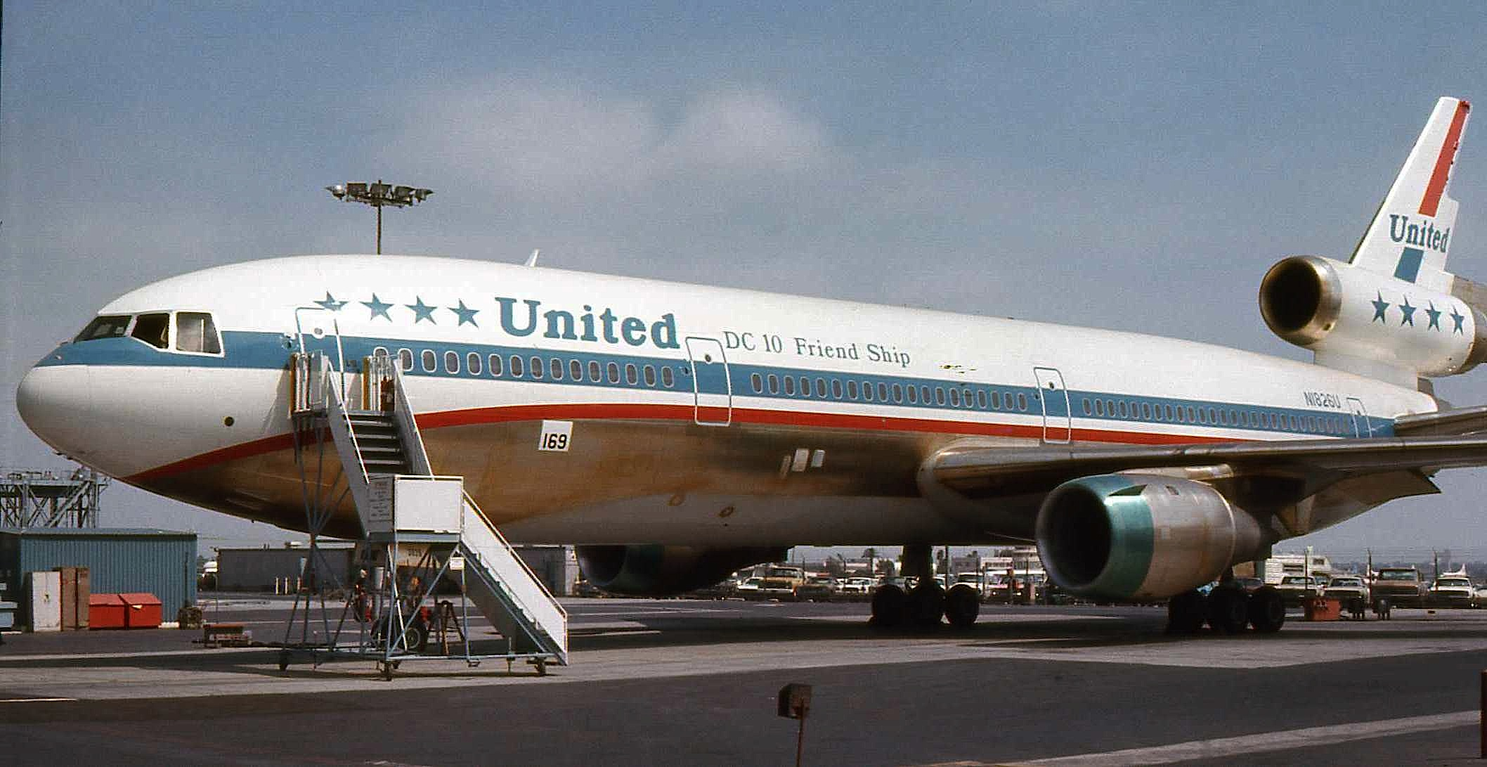 United States of America, California, Long Beach Airport, McDonnell Douglas. United Airlines McDonnell Douglas DC-10-10, N1826U, c/n 46625/169, first flight on August 7, 1974, delivered 1975-02-27 to United on February 27, 1975. Leased to World Airways in March 1986 and returned in September 1986. Leased to Leisure Air from December 1993 to November 1994. Converted to MD-10-10F and delivered to Federal Express on June 3, 1997 registered N391FE. Written off on July 28, 2006-07-28 because damaged on landing at Memphis International Airport. Here is taken in August 1974 at McDonnell Douglas plant in Long Beach few days after the first flight.